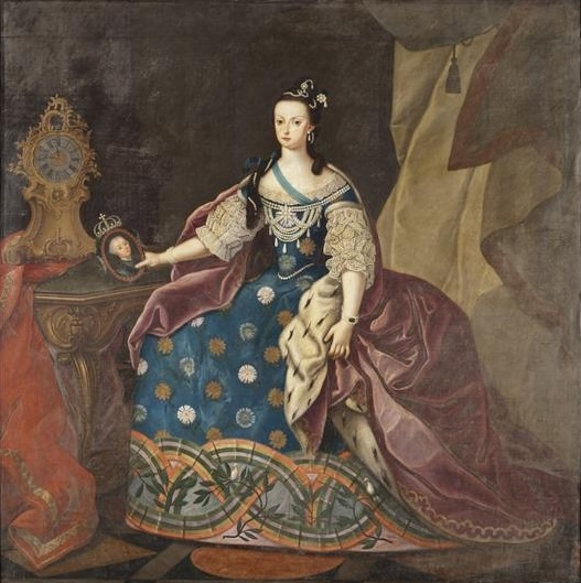 Portrait of Maria I of Portugal (1734-1816)